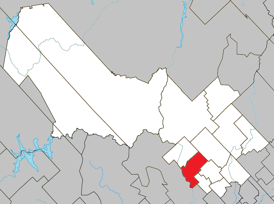 Location of Grands-Piles, Quebec within Mékinac Regional County Municipality.